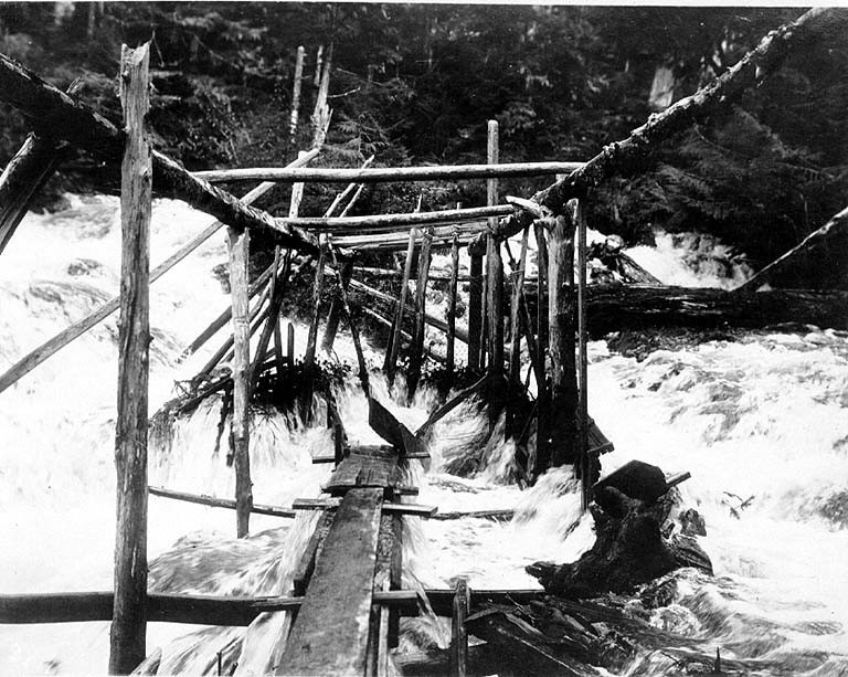 From John Cobb field notebook: Fish trap in Tamgas Stream, Annette Island, Alaska. Jul 26, 1910 Subjects (LCSH): Fish traps--Alaska--Tamgas Stream; Salmon industry--Alaska--Tamgas Stream; Tamgas Stream (Alaska)